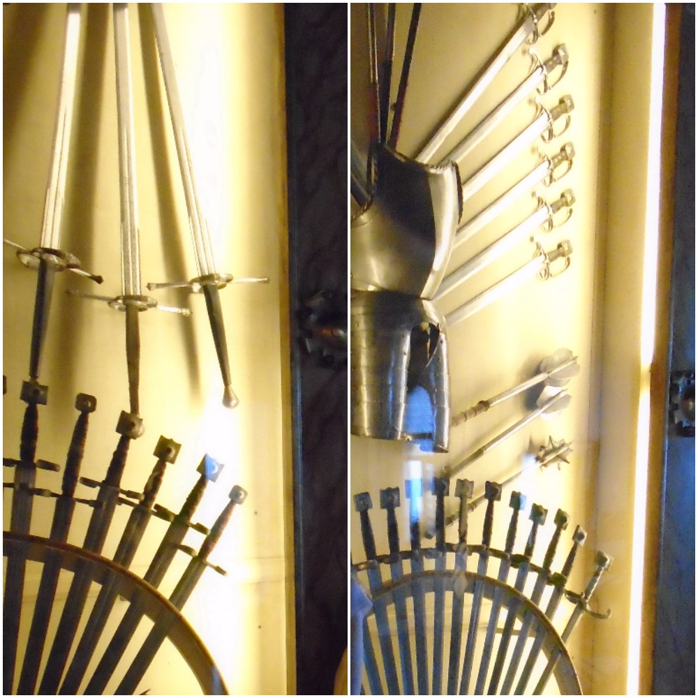 Museum of weapons, Doge palace, Venice, Italy